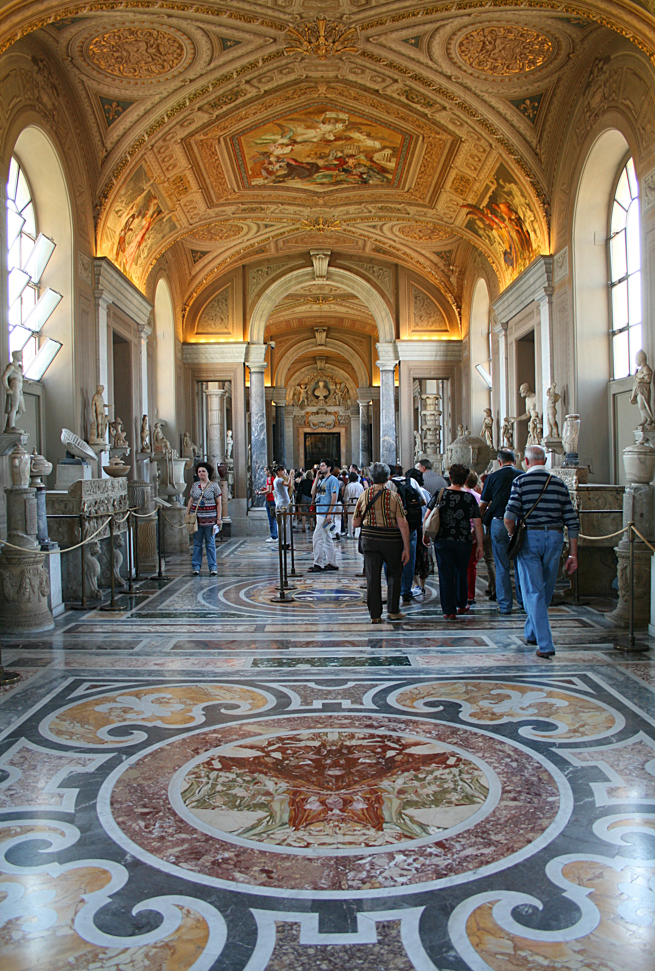 Gallery of the Candelabra - Vatican Museum in Rome.